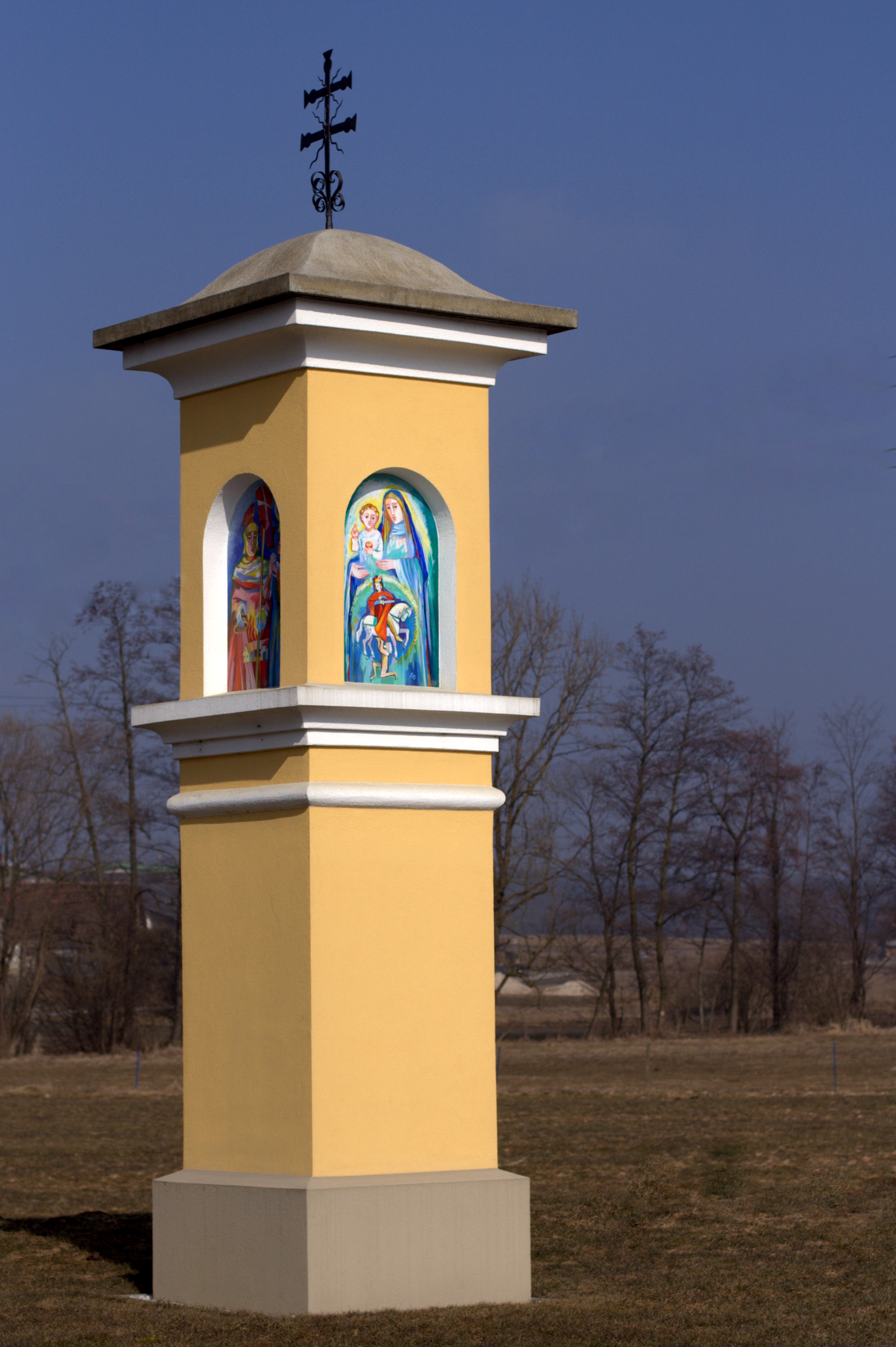 Wayside shrine in Underdombach, municipality Buch-Geiseldorf, Styria. Frescos by Adolf Osterider.